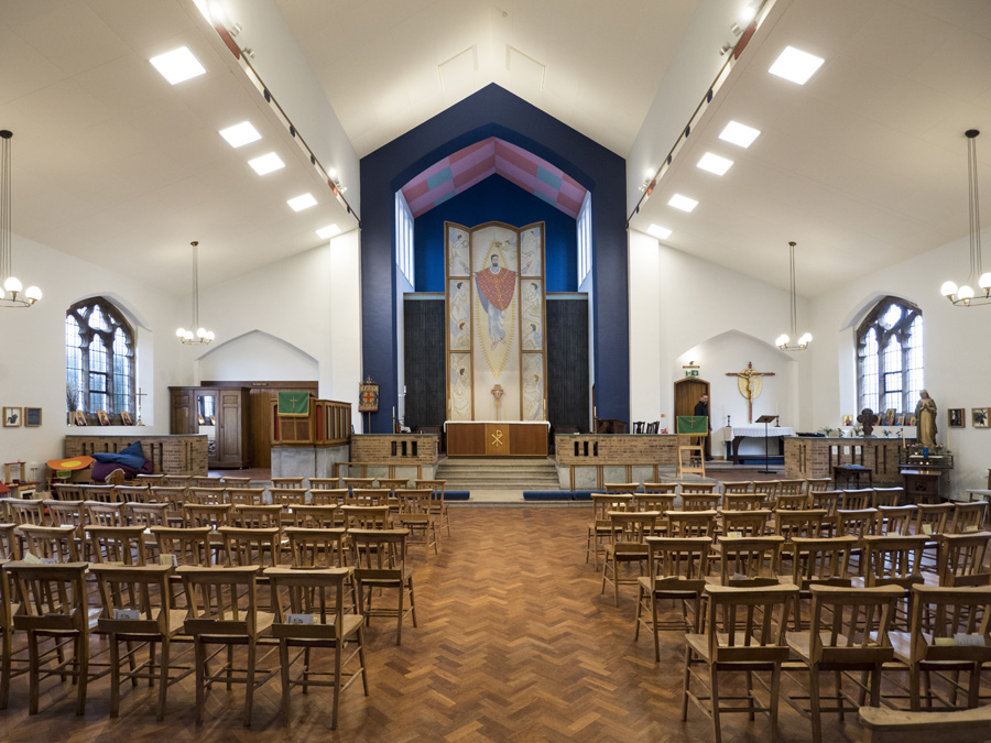 St Barnabas, Grove Road, Bethnal Green - East end